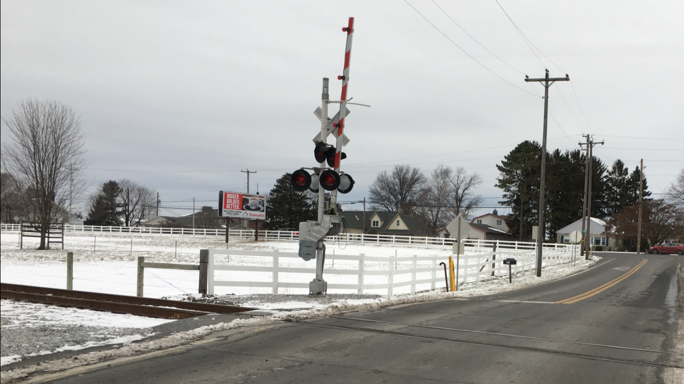 This image shows the level crossing of Norfolk Southern's New Holland Secondary Rail Line over Peter's Road in New Holland, Pennsylvania.